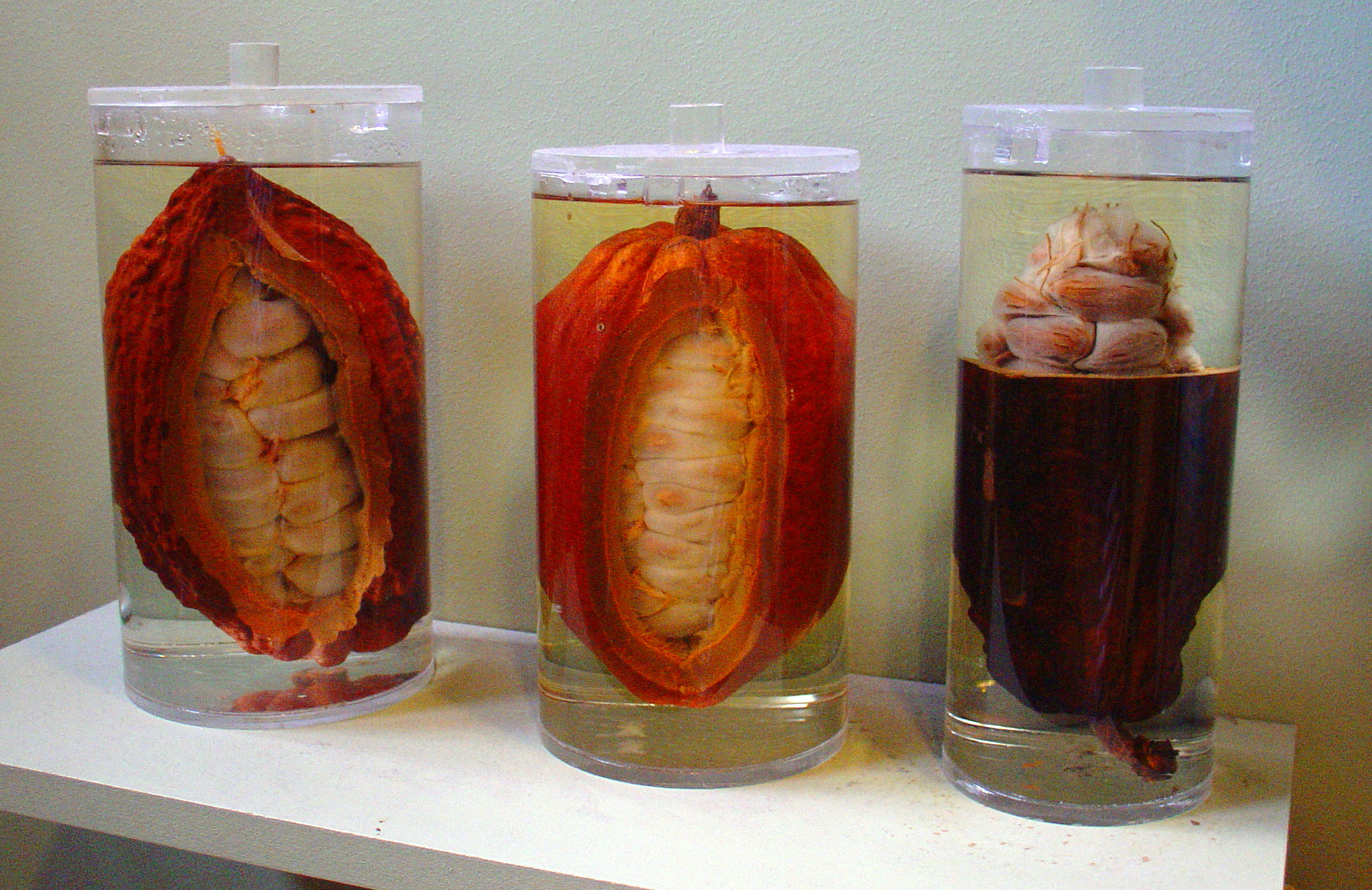 Cacao pods. Choco-Story museum Brugge (Belgium)